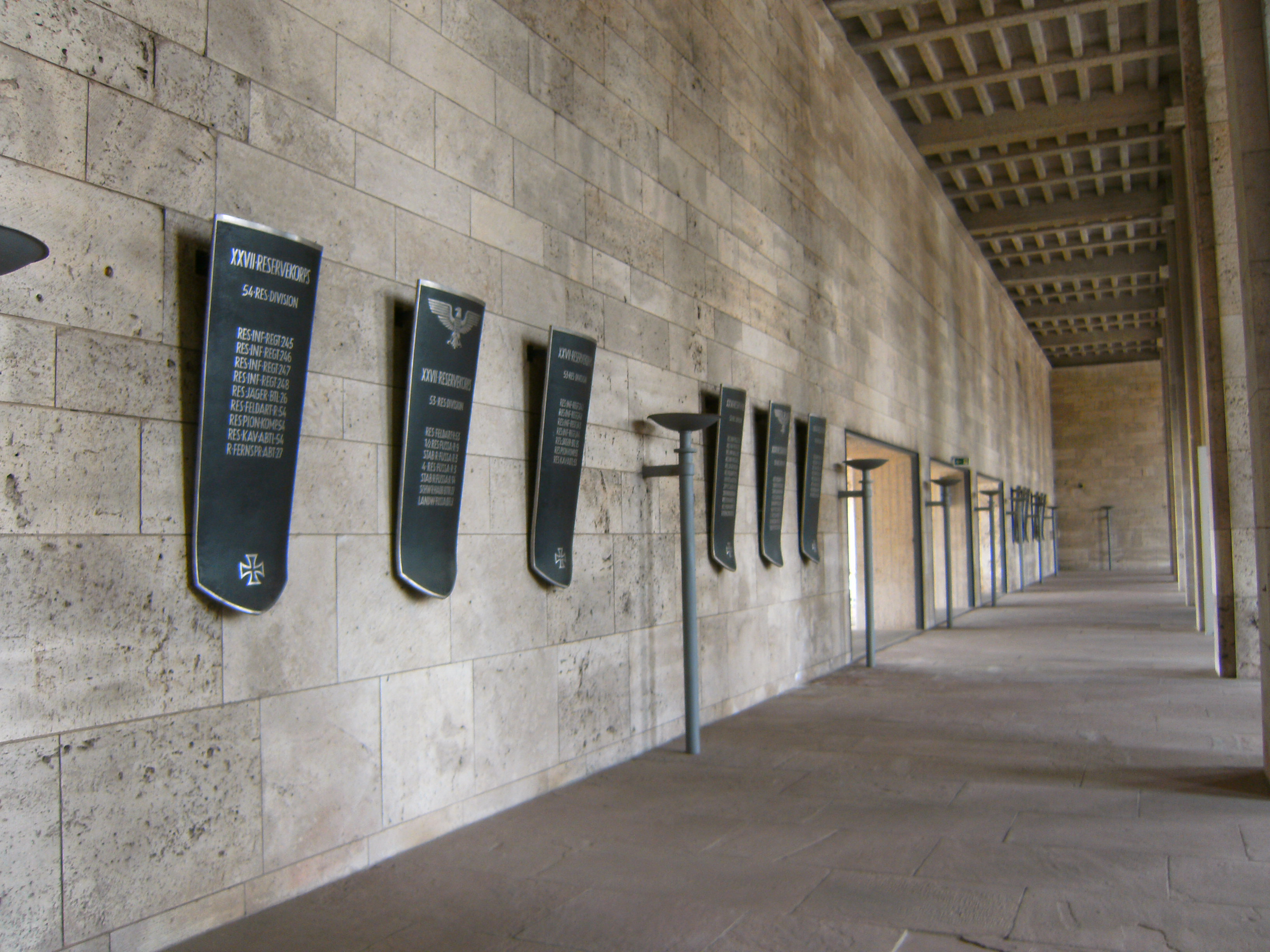 Glockenturm Berlin, Germany: Langemarckhalle (remembering and searching peace).